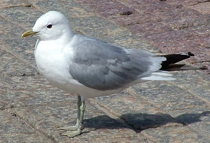 Larus canus, Common Gull. Helsinki, Finland.